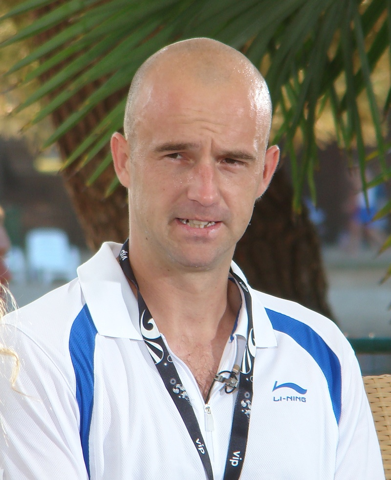 Croatian tennis player Ivan Ljubičić. Photograph taken in Umag, Croatia